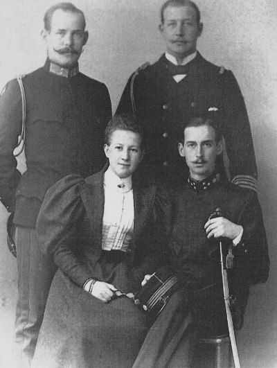 Princess Maria of Greece and Denmark with her three eldest brothersː Constantine, George and Nicholas